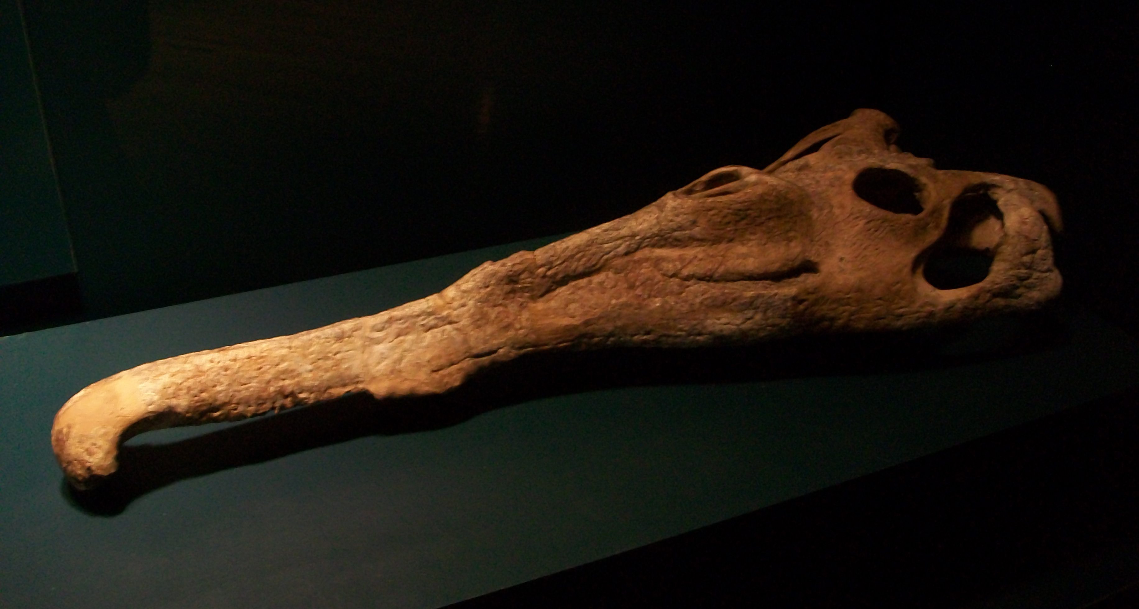 Skull of Machaeroprosopus (=Pseudopalatus) andersoni in the Field Museum of Natural History.